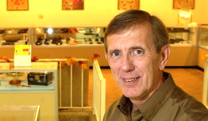 Larry Paul Kelly